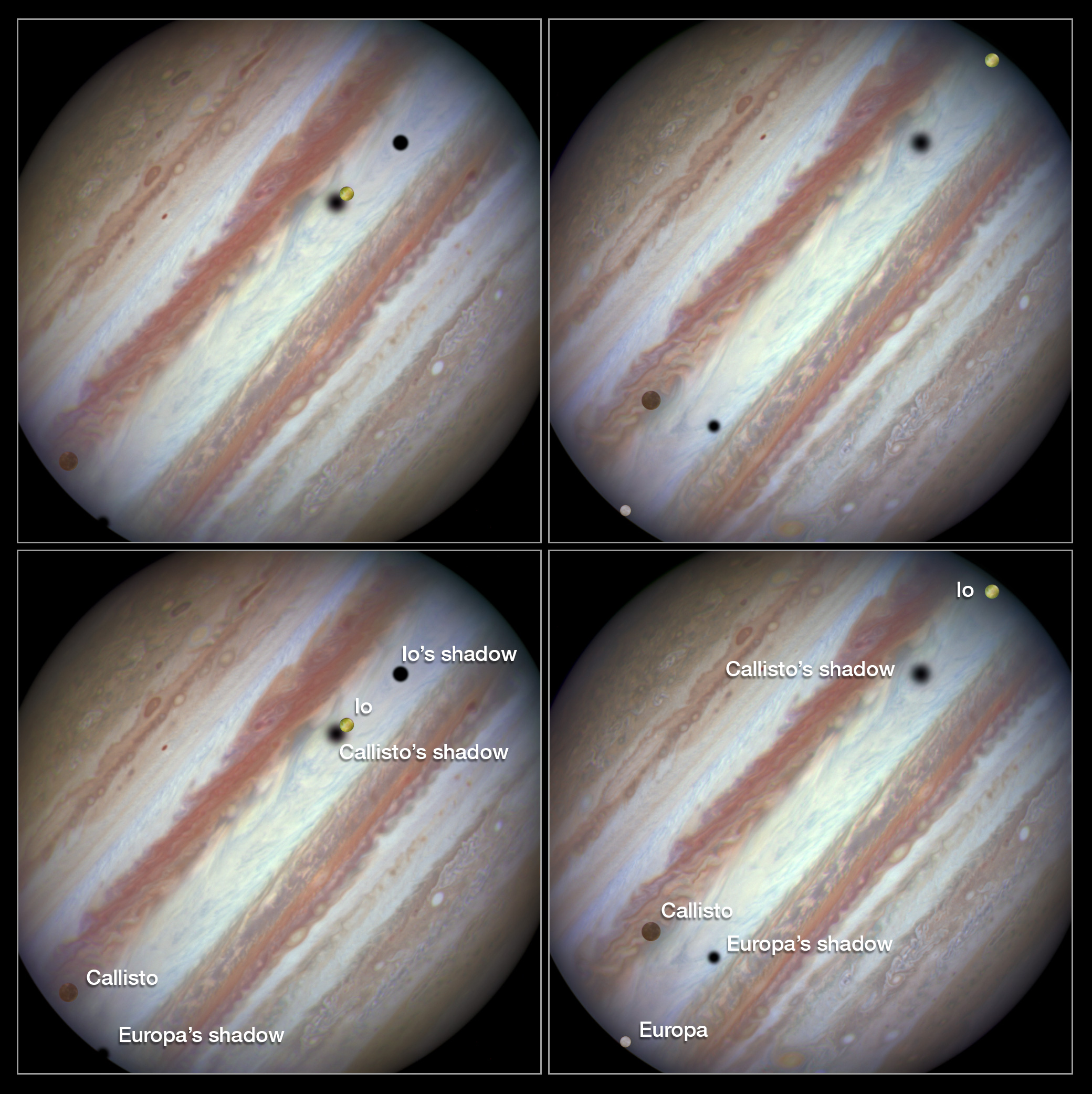 These new NASA/ESA Hubble Space Telescope images capture a rare occurrence as three of Jupiter’s largest moons parade across the giant gas planet’s banded face. The image on the left shows the Hubble observation at the beginning of the event. On the left is the moon Callisto and on the right, Io. The shadows from Europa, which cannot be seen in the image, Callisto, and Io are strung out from left to right. The image on the right shows the end of the event, approximately 42 minutes later. Europa has entered the frame at lower left with slower moving Callisto above and to the right of it. Meanwhile Io — which orbits significantly closer to Jupiter and so appears to move much more quickly — is approaching the eastern limb of the planet. Whilst Callisto’s shadow seems hardly to have moved Io’s has set over the planet’s eastern edge and Europa’s has risen further in the west. The movement of the moons is shown in the video created from Hubble stills.